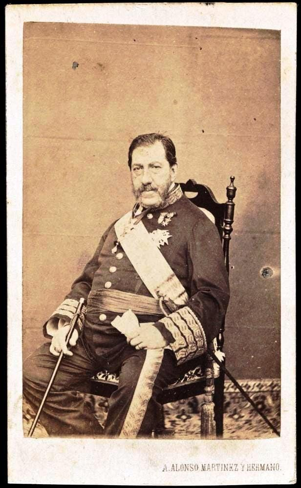 Infante Francisco de Paula of Spain (1794-1865) in old age